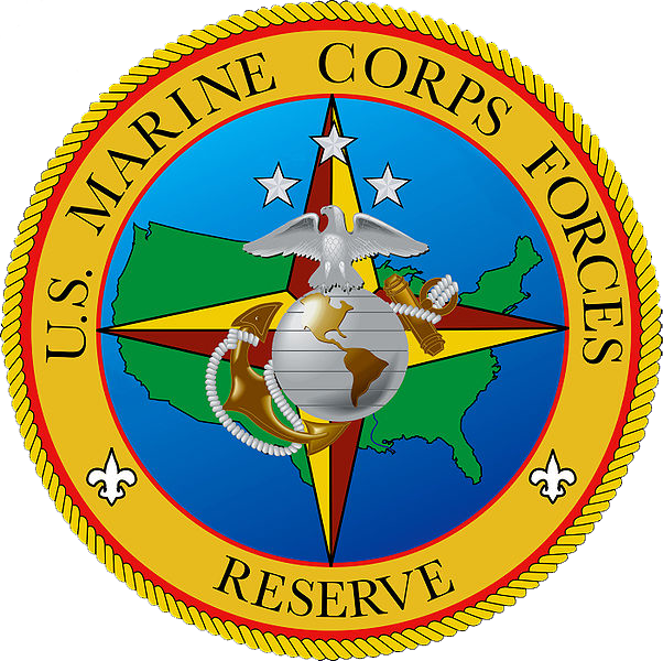 Insignia of the United States Marine Forces Reserve.